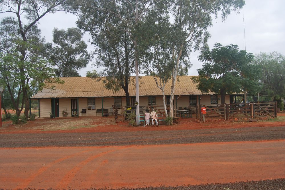 Royal Mail Hotel (2013) - front view